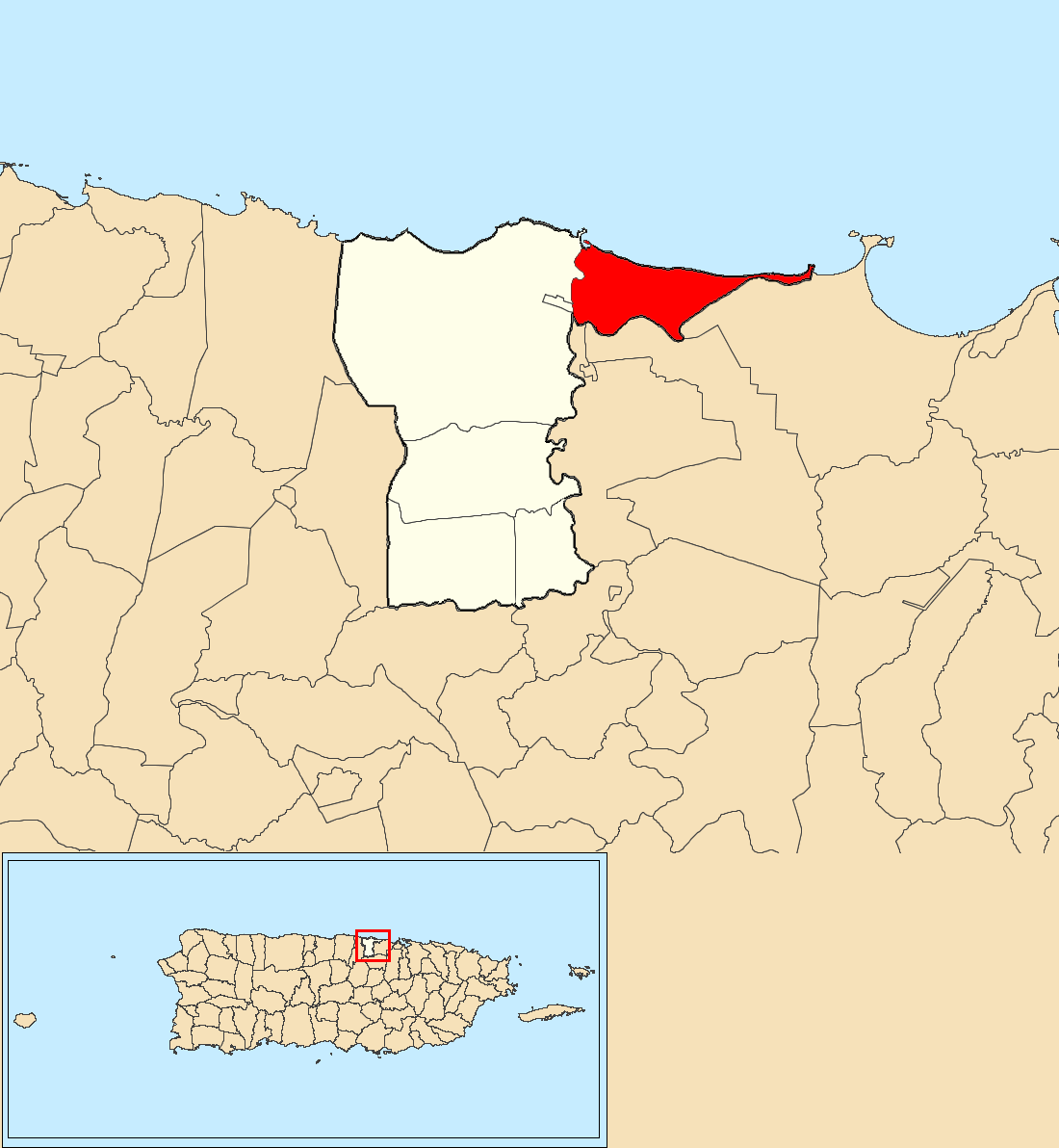 Mameyal, Dorado, Puerto Rico locator map